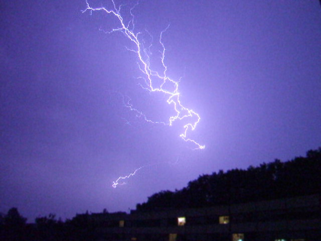 Intracloud lightnings over Toulouse (France). Eclairs intra-nuageux sur Toulouse(France).